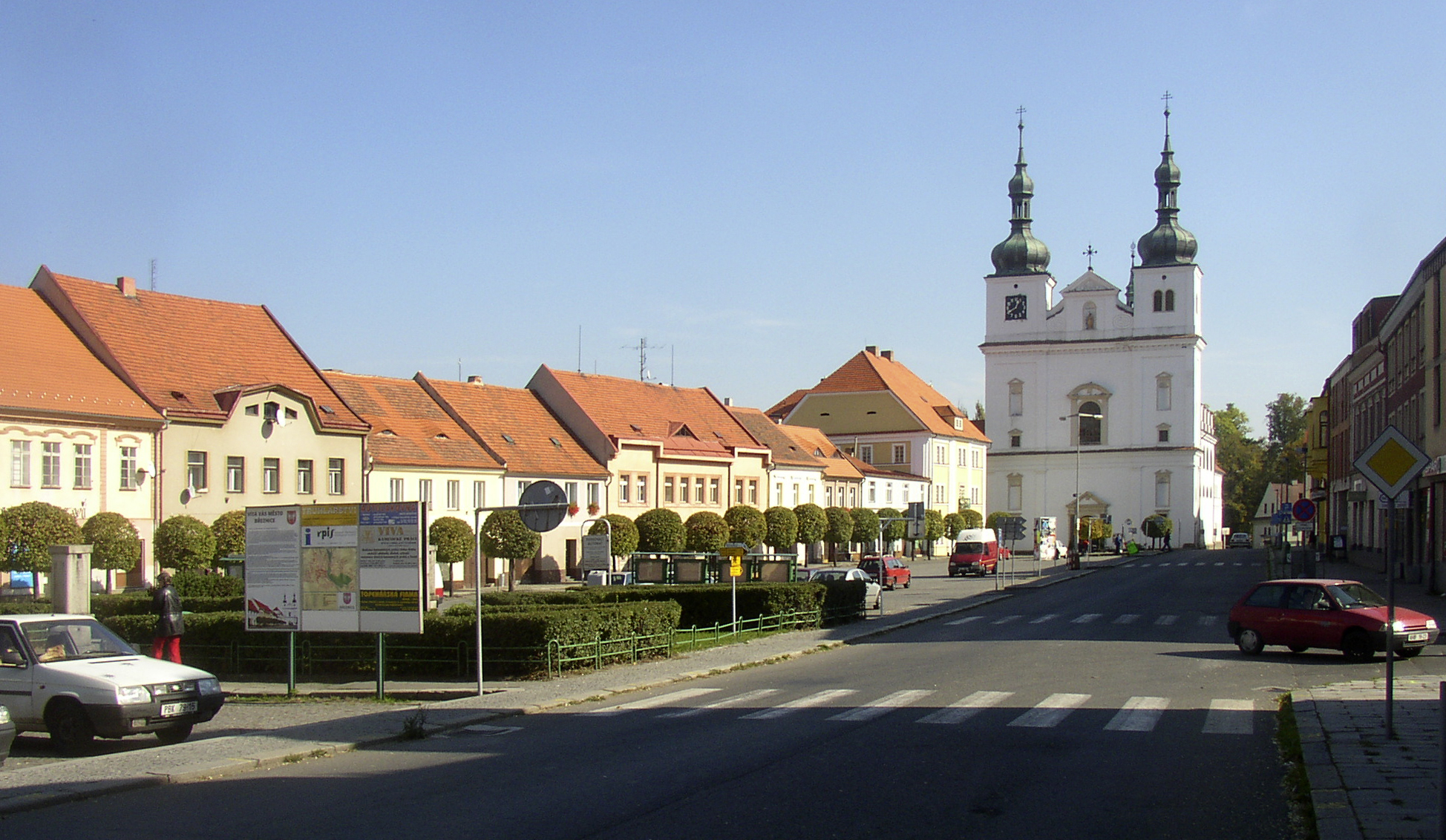 Eastern part of town square in Březnice, Příbram District, Czech Republic, Baroque (1640s) church of SS Francis Xavier and Ignatius Loyola by Carlo Lurago and Martino Lurago in the background.